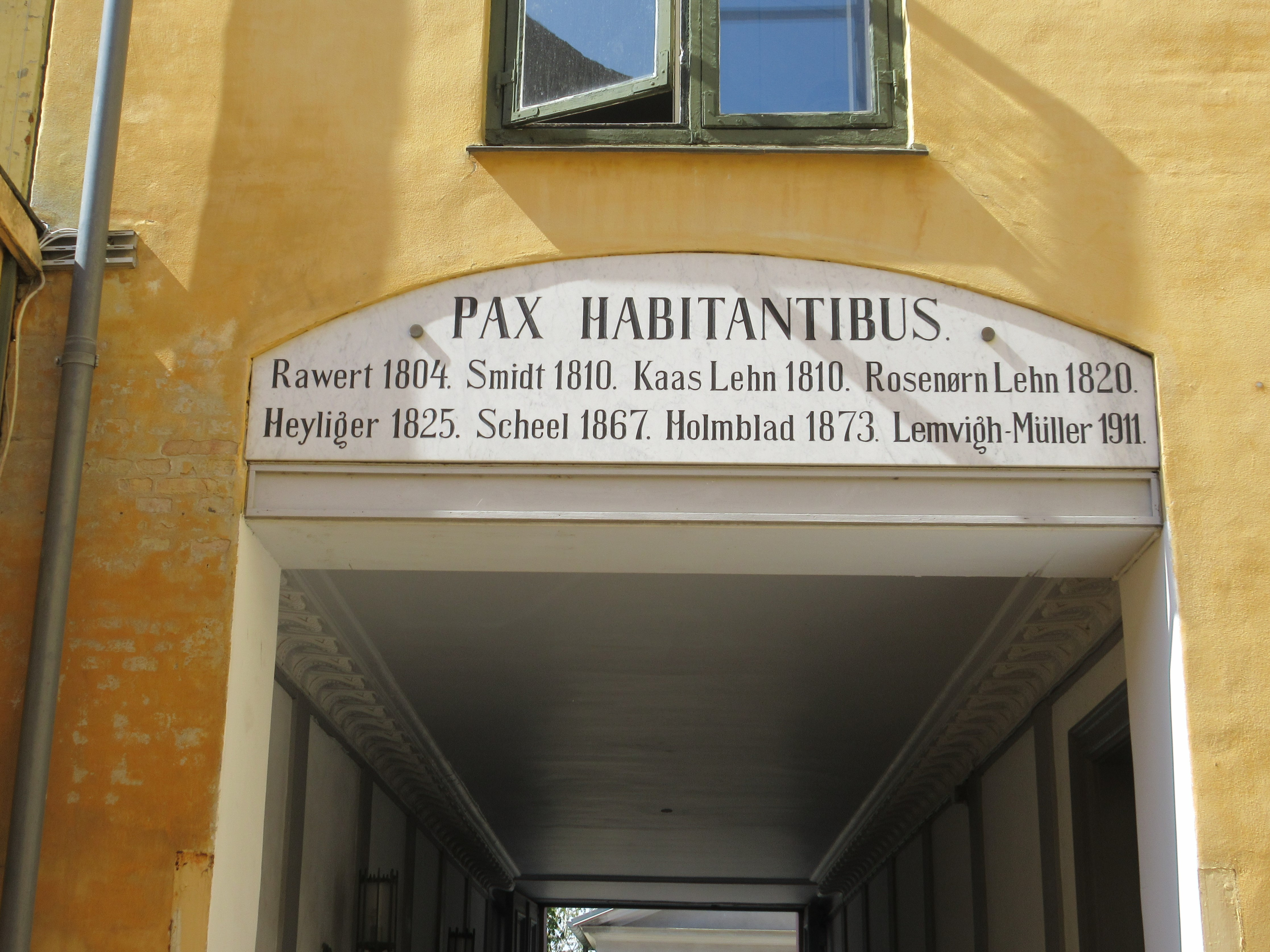 Inscription over the gateway in the courtyard of Kronprinsessegade 26 in Copenhagen, Denmark